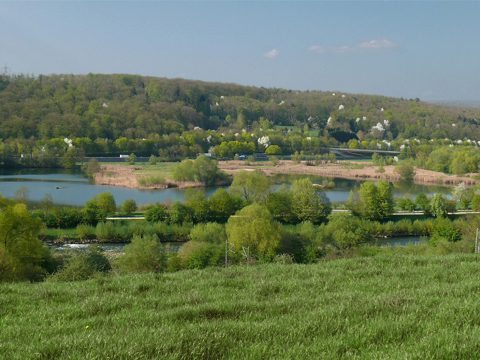 Wernauer Baggerseen, nature reserve since 1981. Visible are the dredged Neckar and a four lane Motorway in the back. To the end of the 19th century the Neckar was almost untouched. During seasonal high waters the settling-free river flats, used for livestock keeping, were flooded. Then the mining of river gravel began, first manually, by mid 20th century mechanically. Gravel pits turned into quarry ponds, which soon turned upside down the entire Neckar valley, which is relatively broad between Köngen and Wernau. The riverbed was dug and turned into a fast flowing, deep high-water trench. After 1970, when extractions became unprofitable, part of the valley was declared a nature reserve, a pseudo renaturation began and sure enough, many rare and endangered flora, migrating and residing species settled again.